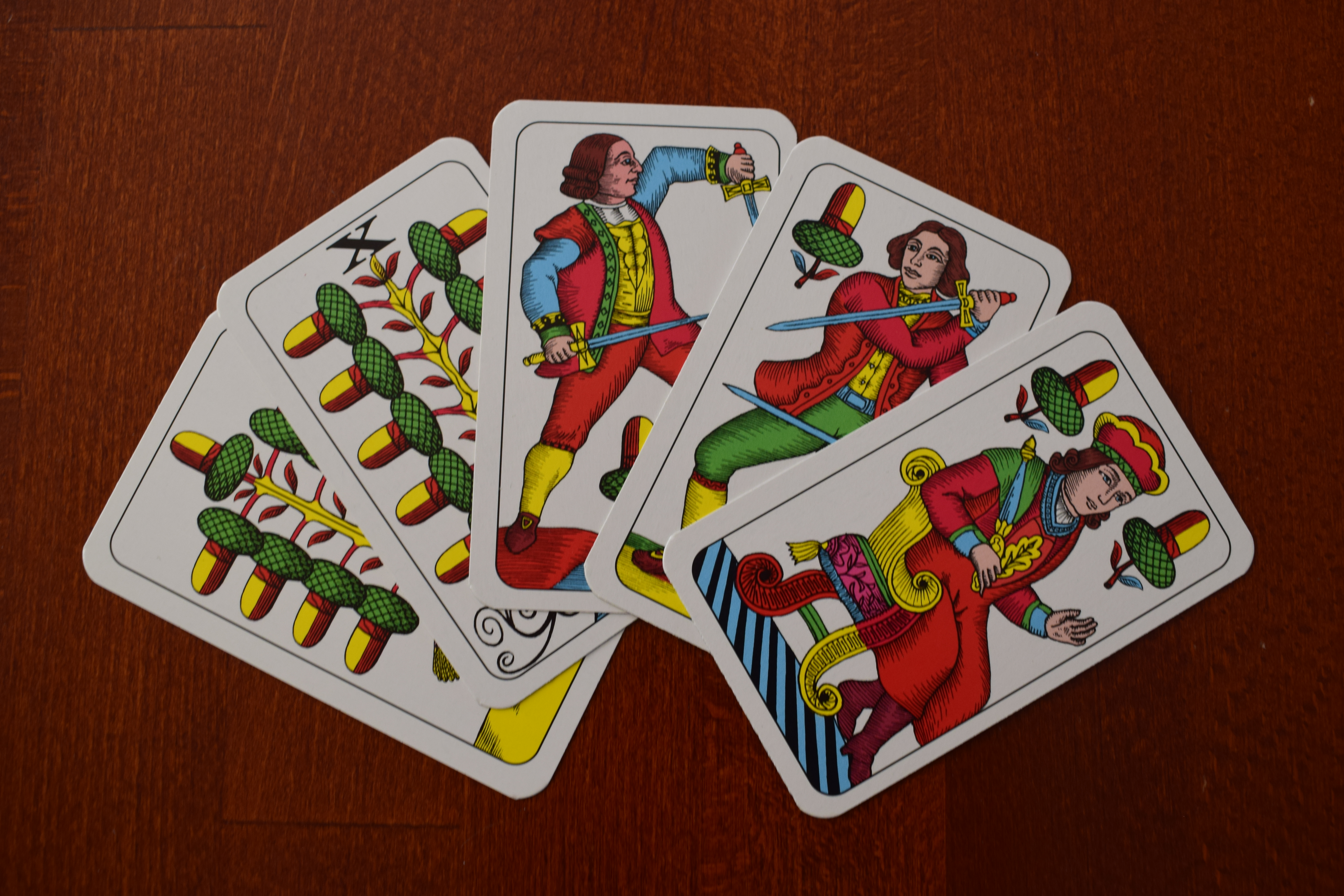 The King, Ober, Unter, Ten and Nine of Acorns from a Bohemian pattern, German-suited pack